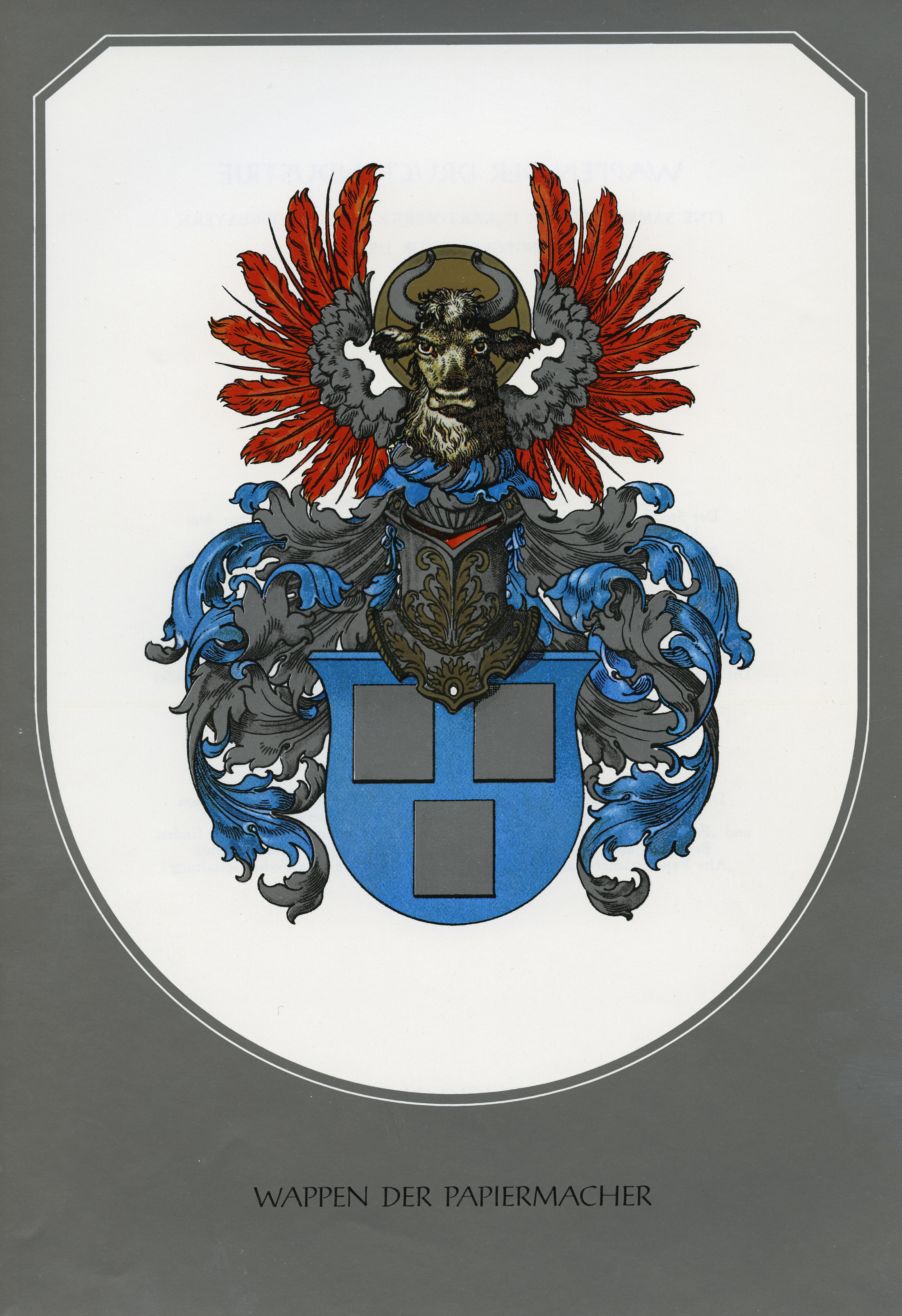 Coat of Arms Papermaker